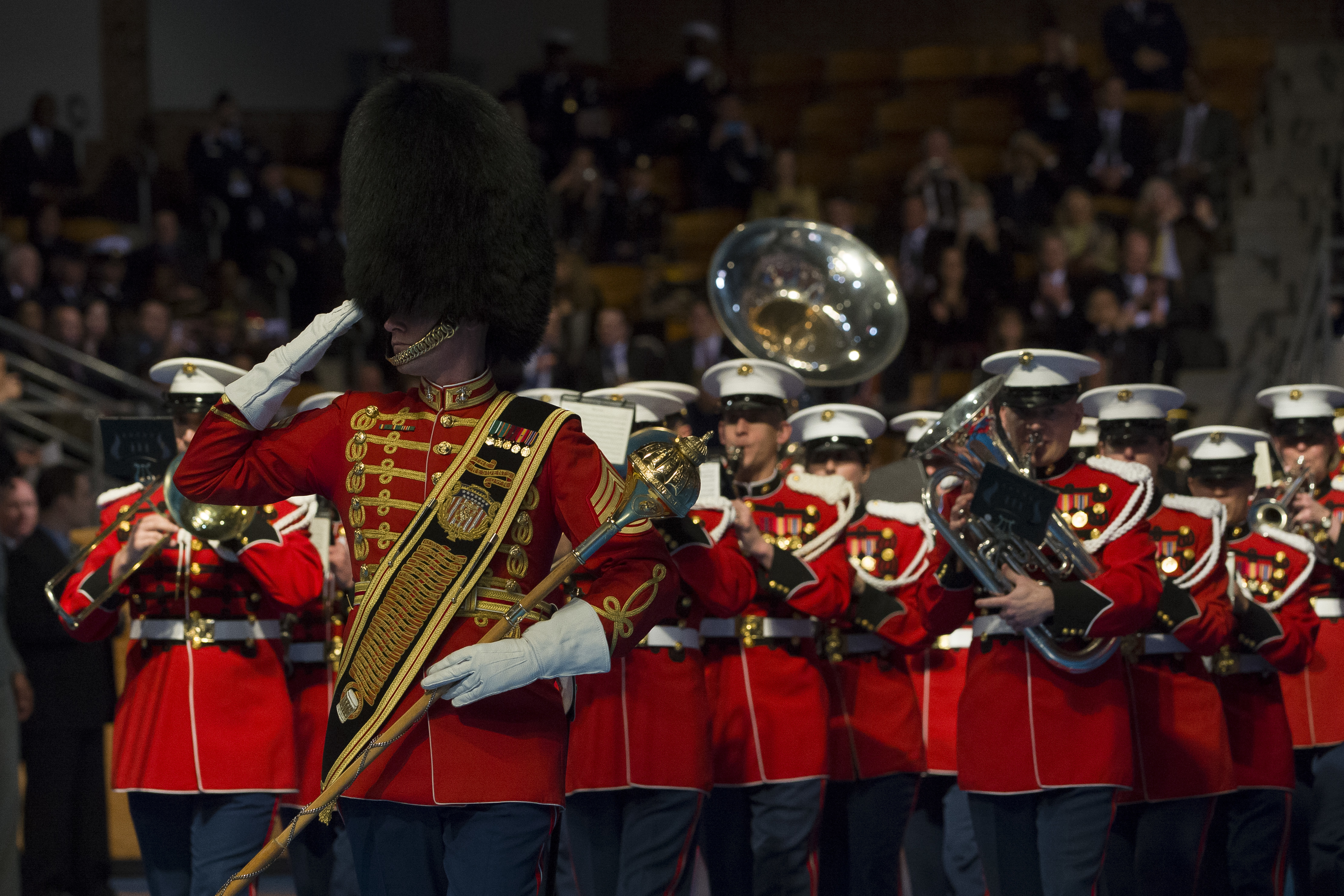 Secretary of Defense Chuck Hagel observes a pass in review during the Armed Forces Farewell Tribute to Hagel on Joint Base Myer-Henderson Hall in Arlington, Va., Jan. 28, 2015. President Barack Obama hosted the event, which included remarks by Vice President Joe Biden and Army Gen. Martin E. Dempsey, chairman of the Joint Chiefs of Staff. (DOD photo by Petty Officer 2nd Class Sean Hurt/Released)